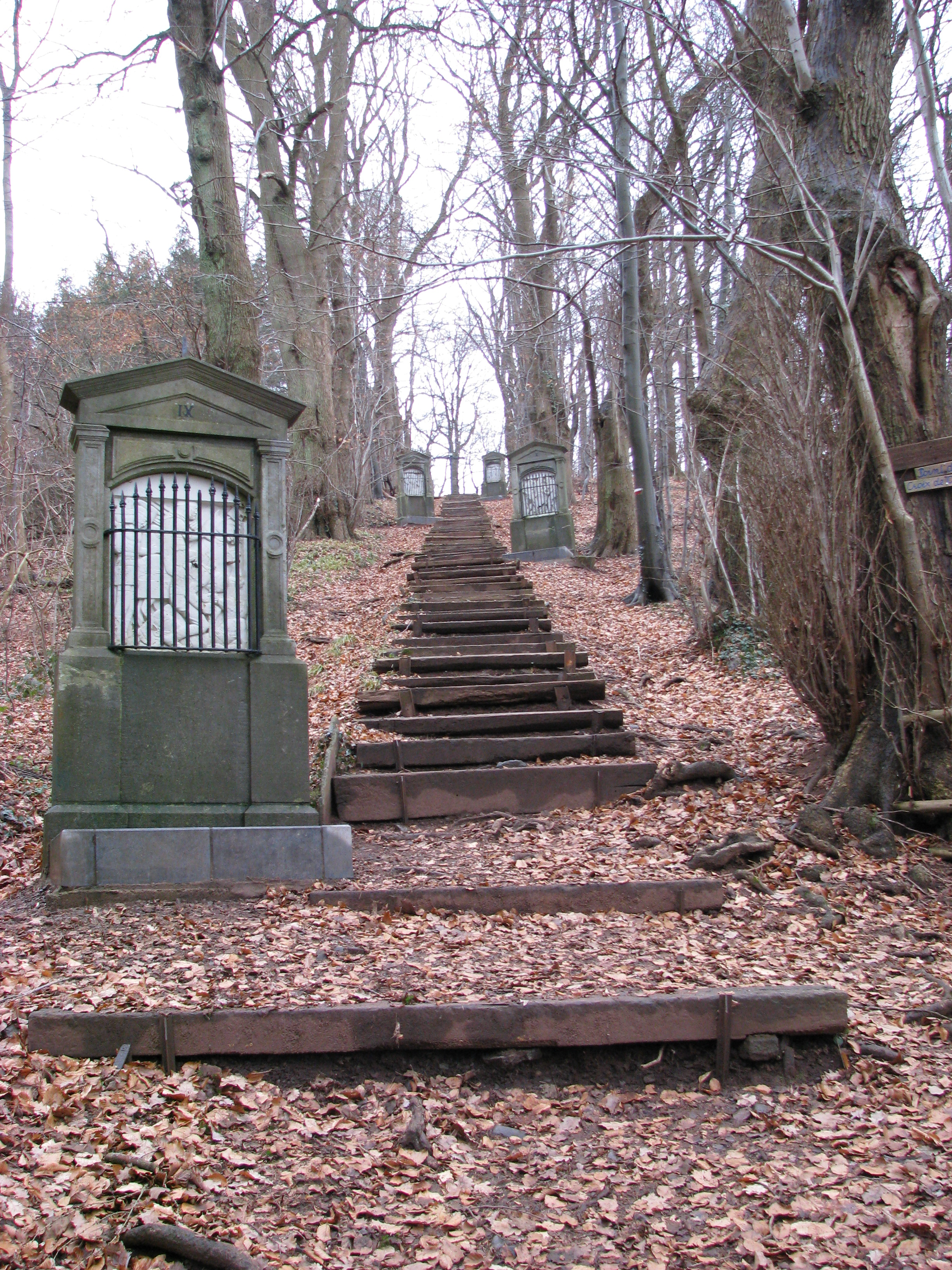 Way of the Cross to the Calvary in Malmedy